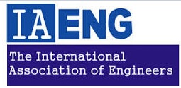 International Association of Engineers سنڌي: انجنيئرن جي بين الاقوامي انجمن